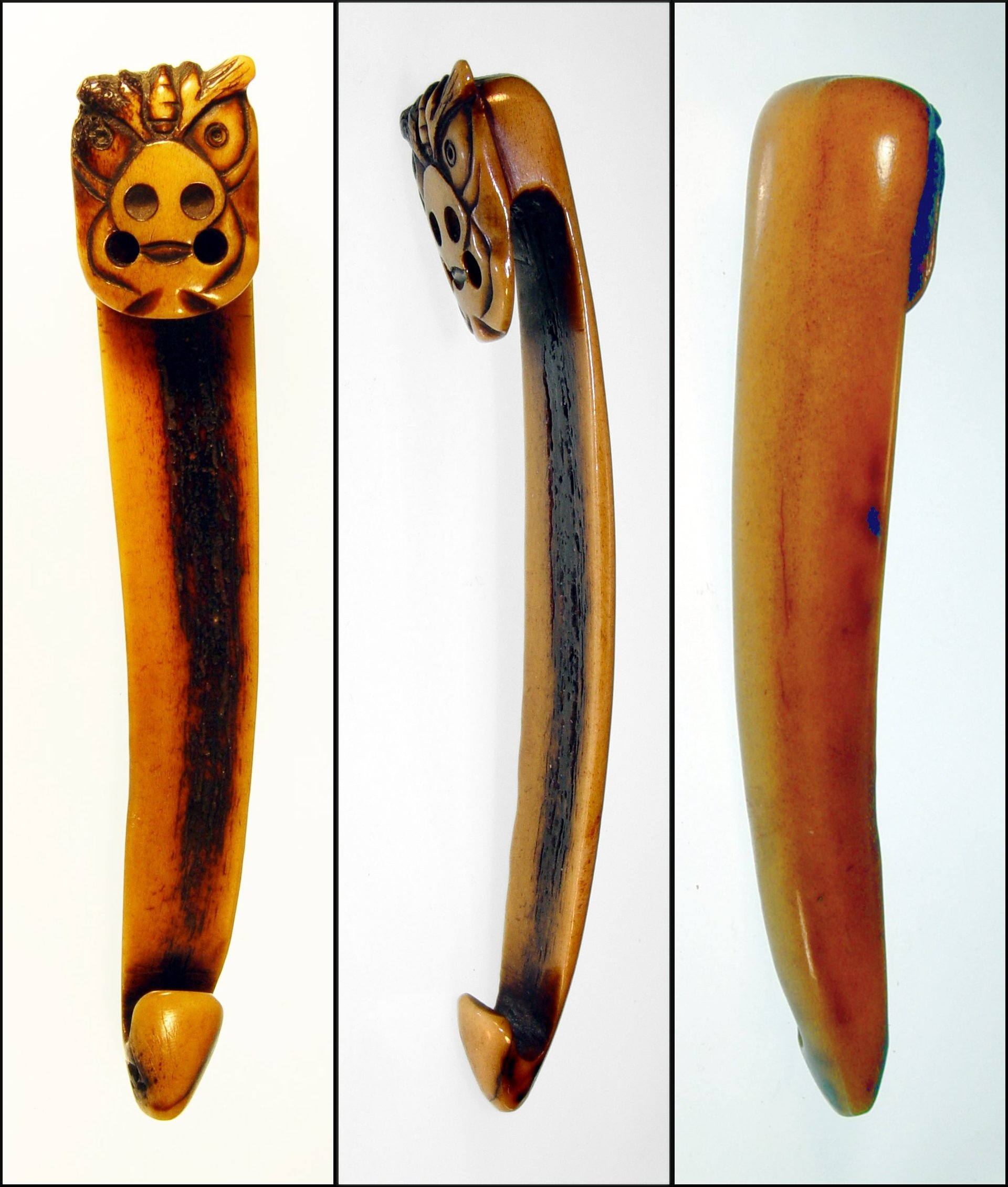 This sashi netsuke is of the subtype called obihasami, or obi-clip, which hooks around both edges of the obi for added security. Made of stag antler, it depicts an abstract animal face, and is 4.7" (118mm) long. This type of carving is also called Kokusai-bori, but this netsuke should not be confused with those actually carved by Kokusai, which are far superior.